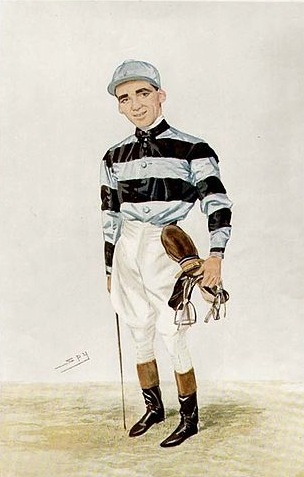 Caricature of Bernard Dillon. Caption read "Bernard".